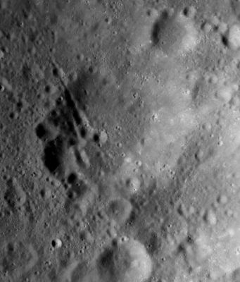 LROC image WAC No. M119021368ME. Calibrated by LROC_WAC_Previewer.